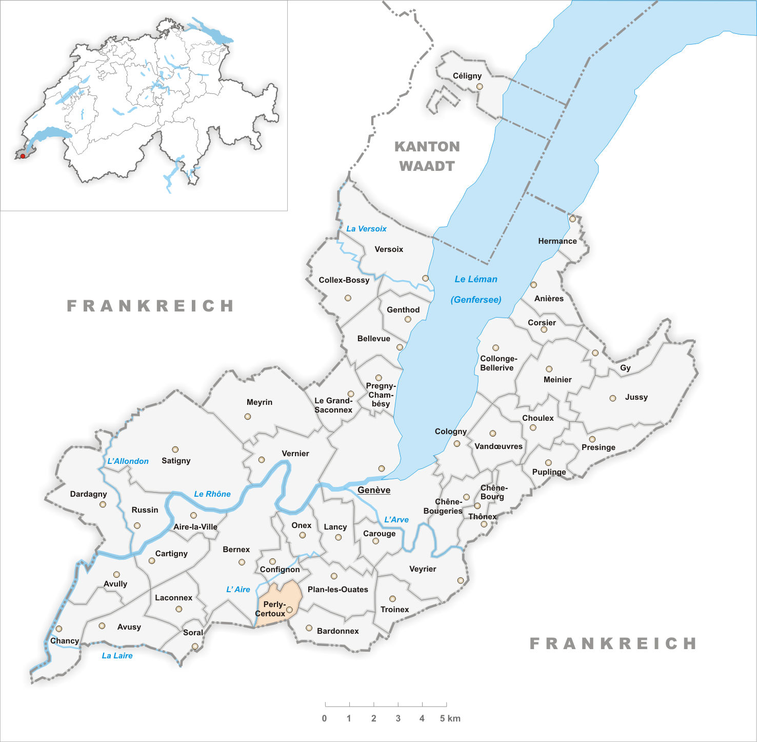 Municipality Perly-Certoux